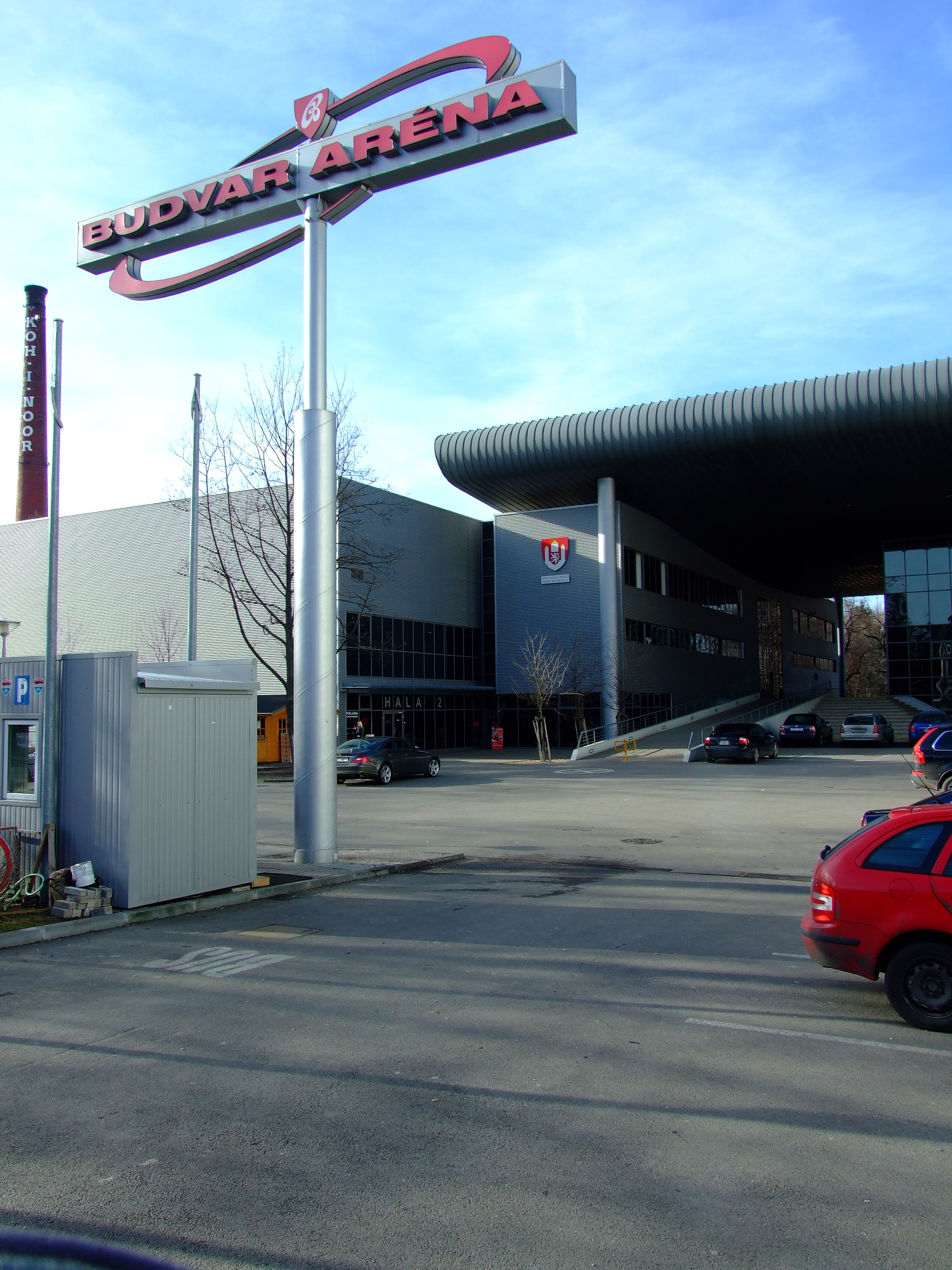 Budvar arena, hockey arena in České Budějovice, Czech Republic